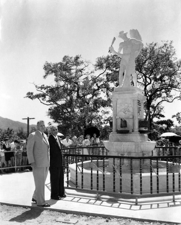 Premier Nicklin at the unveiling of the sugar pioneers memorial, Innisfail.